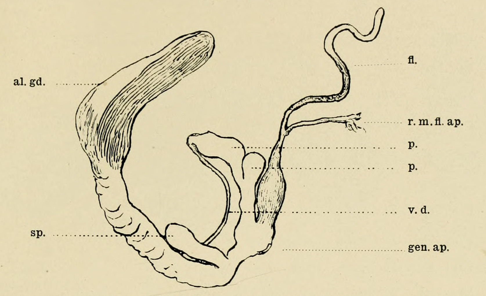 An illustration of the genitalia of Buliminus (Achatinelloides) balfouri, from The Natural History of Sokotra and Abd-el-Kuri. The key reads: al.gd., albumen gland; sp., spermatheca; v.d., vas deferens; fl., flagellum; gen. ap., generative aperature; p., penis; r. m. fl. ap., retractor msucle of flagellate appendix.